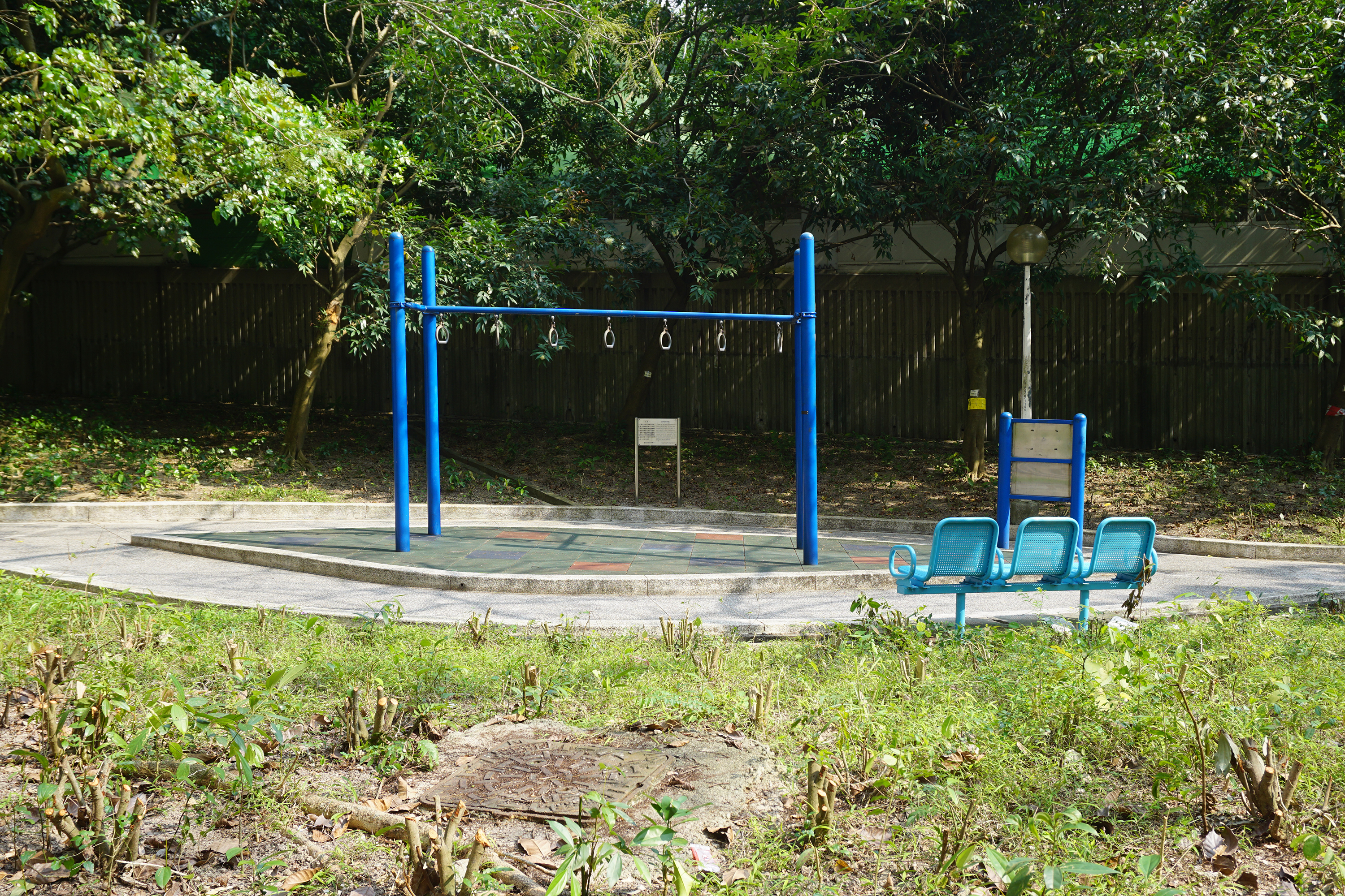 Tsui Ping (South) Estate in Kwun Tong, Hong Kong.